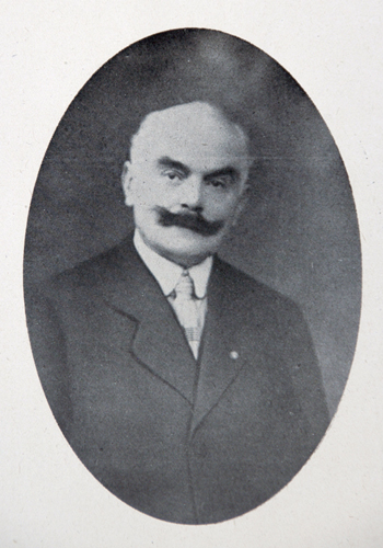 Portrait of Eugène Barthe